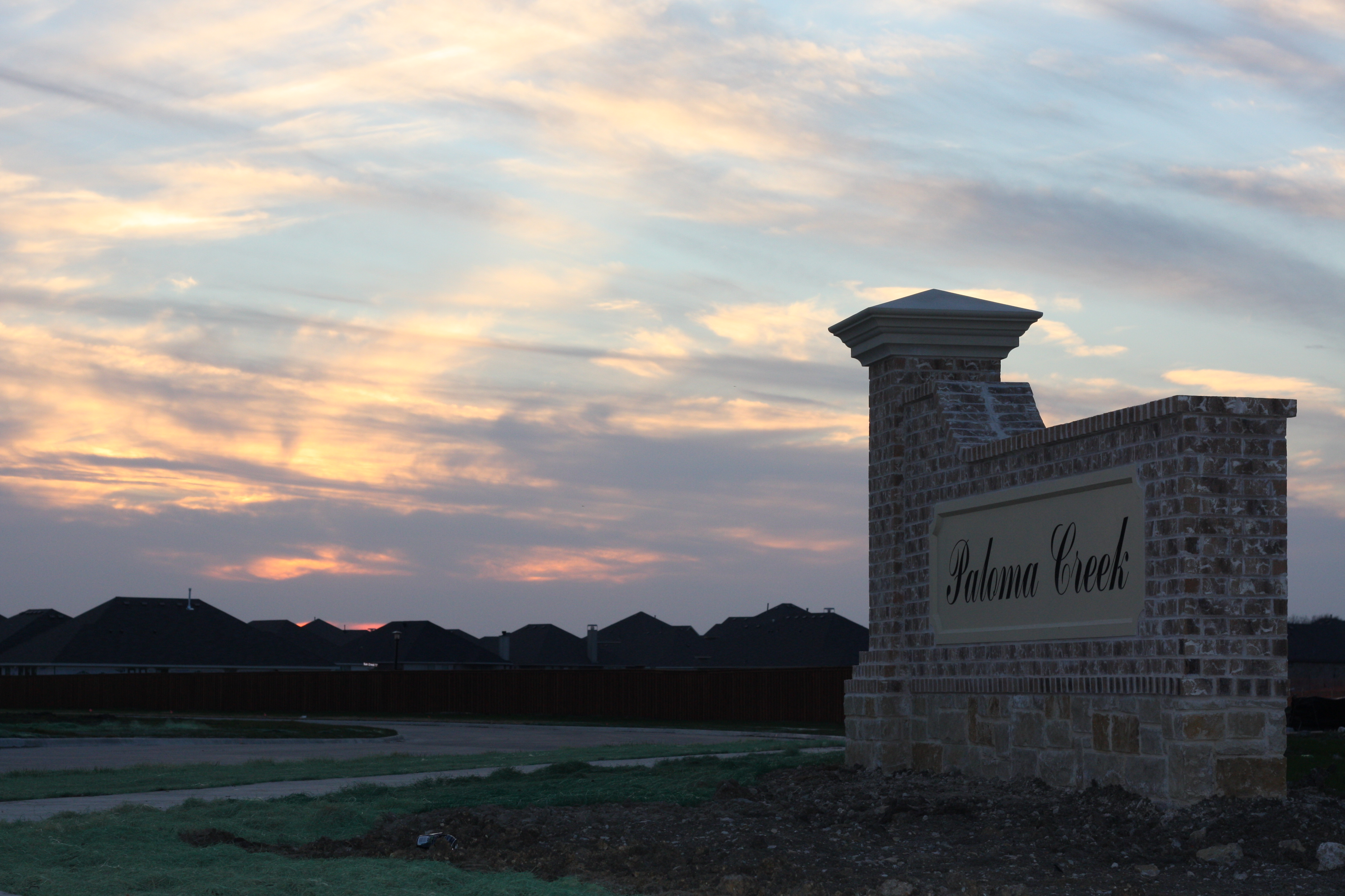 This is a picture of the sunset at Paloma Creek's entrance in Little Elm, Texas. It is a new subdivision.